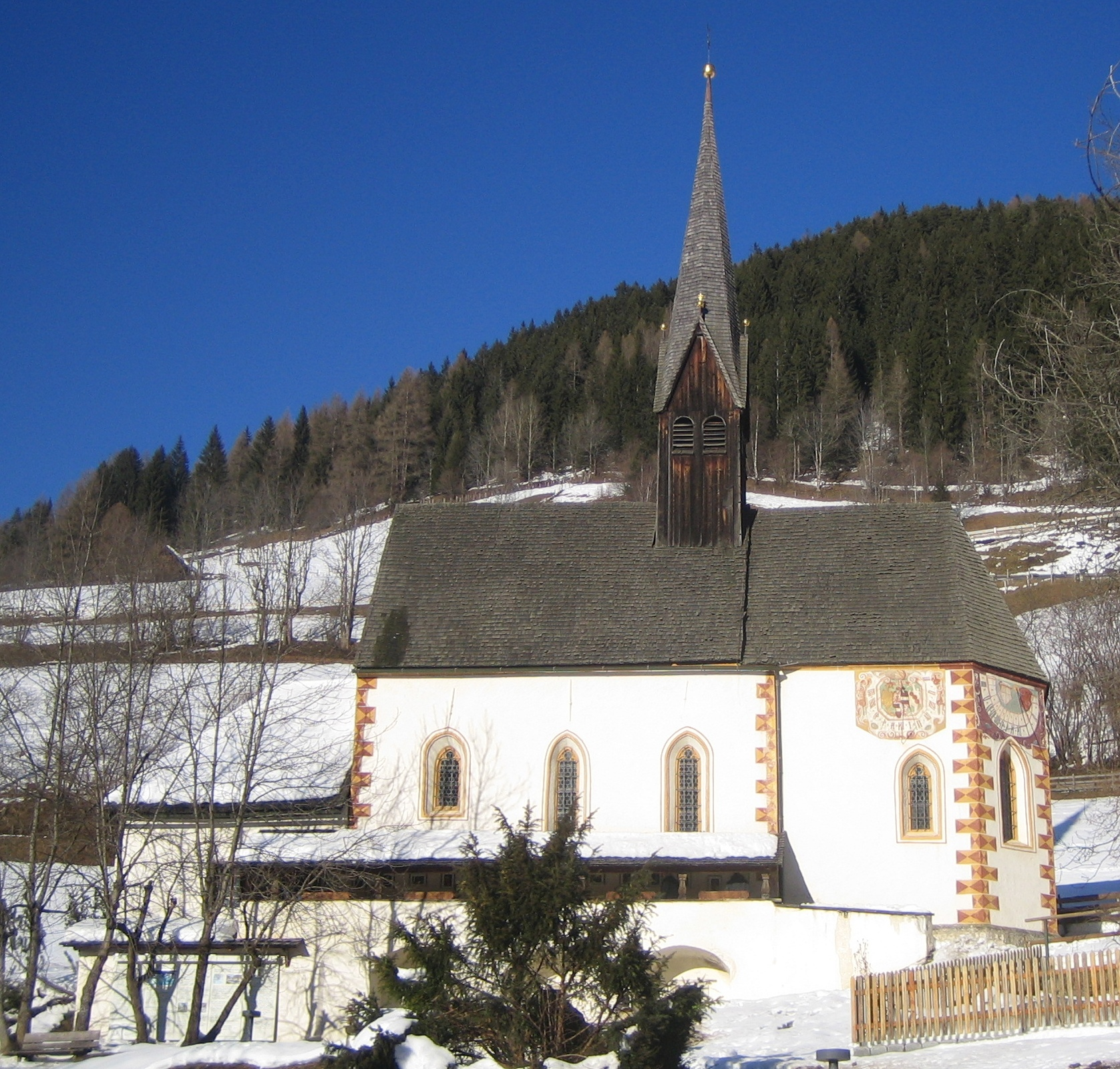 Subsidiary church Sankt Kathrein at Bach in Bad Kleinkirchheim, a famous ski station and municipality in the Central Eastern Alps (Nock Mountains) Carinthia / Austria / European Union.